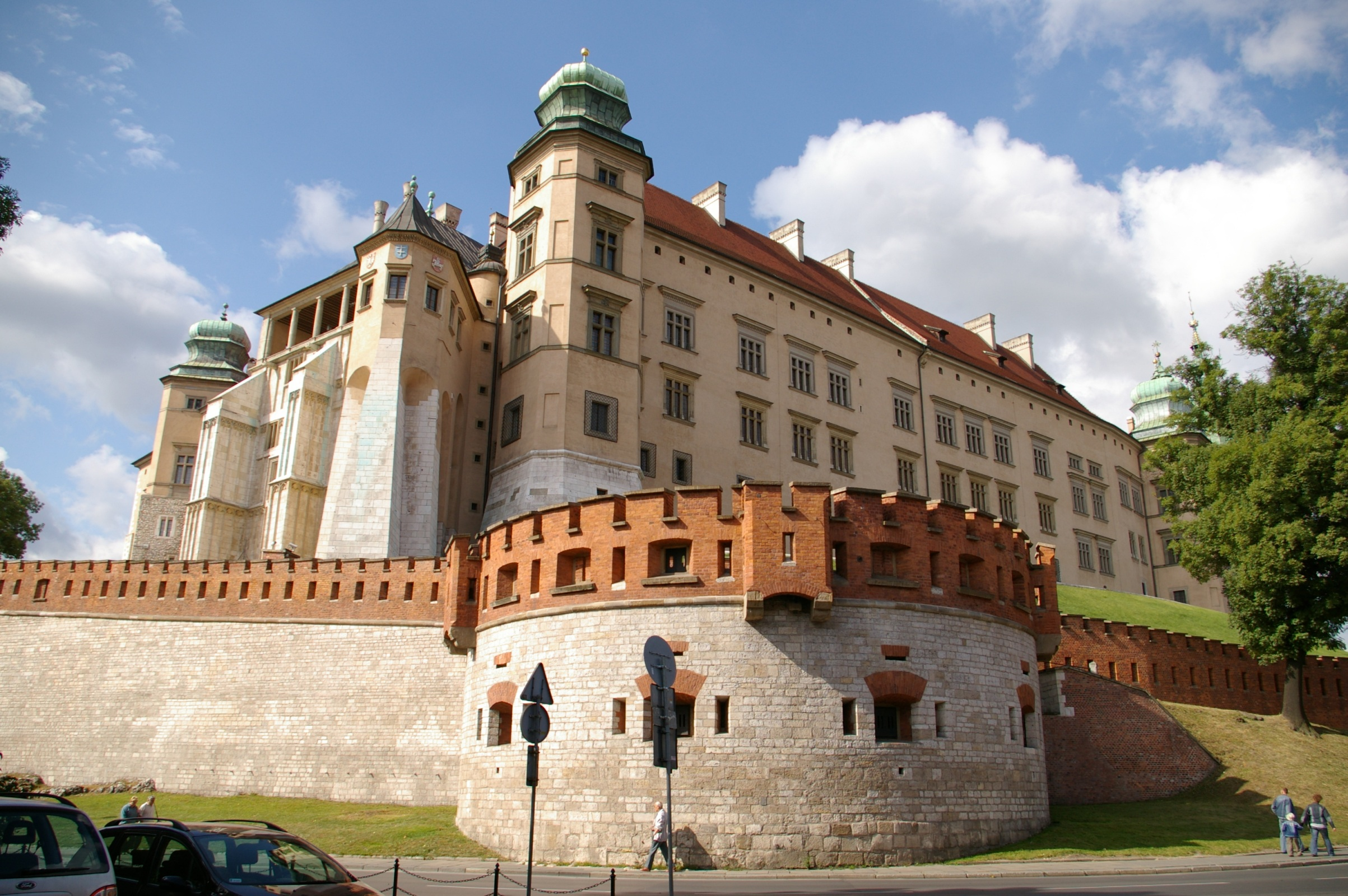 The Wawel Castle in Kraków